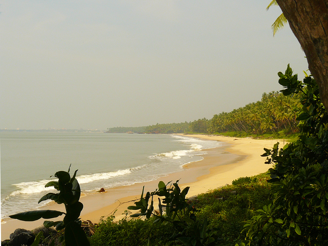 The strikingly beautiful Nadal beach with Kannur town as the backdrop. The place is relatively unknown and so has managed to preserve its pristine beauty. The golden sands of the beach are a joy to tread on and the water is clean and fit for a swim.